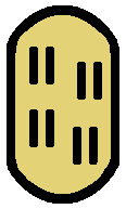 This drawing is a recreation of the Aztec glyph to depict corn tortillas as found in the Codex Mendoza where they portray the amount of corn tortillas given to children at certain ages. Mursell, I. (n.d.). Aztec children's clothes. Mexicalore. Retrieved September 8, 2012, from link